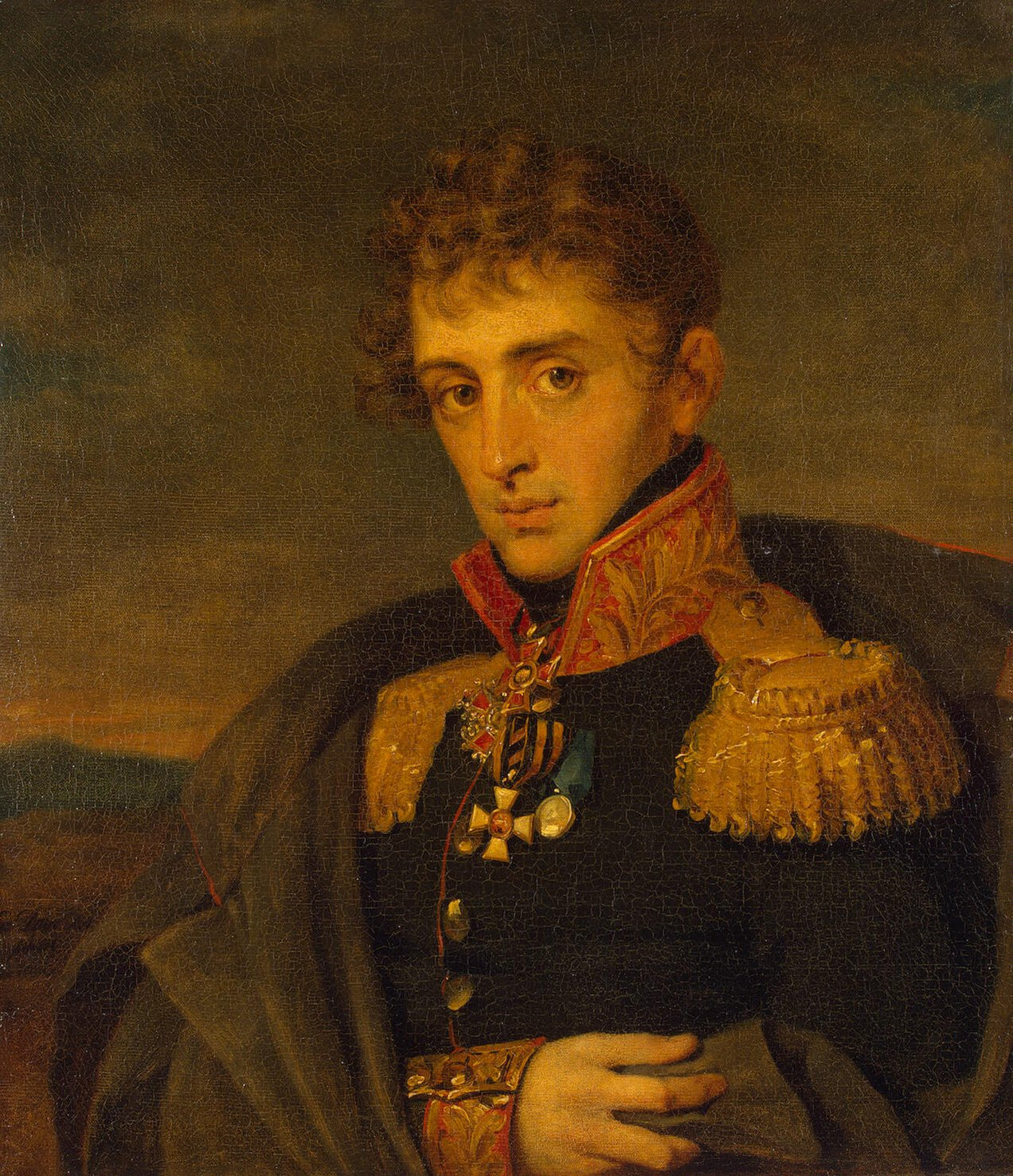 Alexander Alexeevich Tuchkov 4-th (1777-1812), Russian general in Napoleonic war, killed at Battle of Borodino by Geo Dawe 1823-1825 S-Peterburg